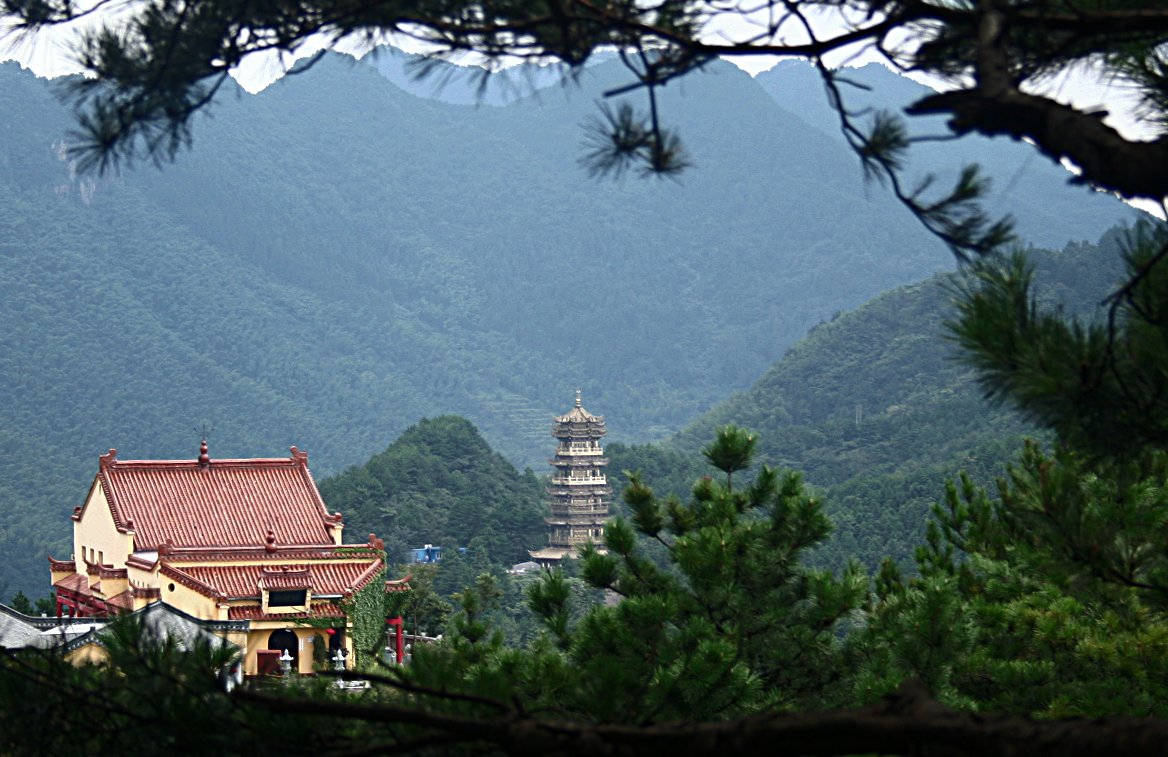 Temple in Jiuhuashan